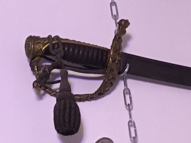 Marine Sword of Felix du Temple.